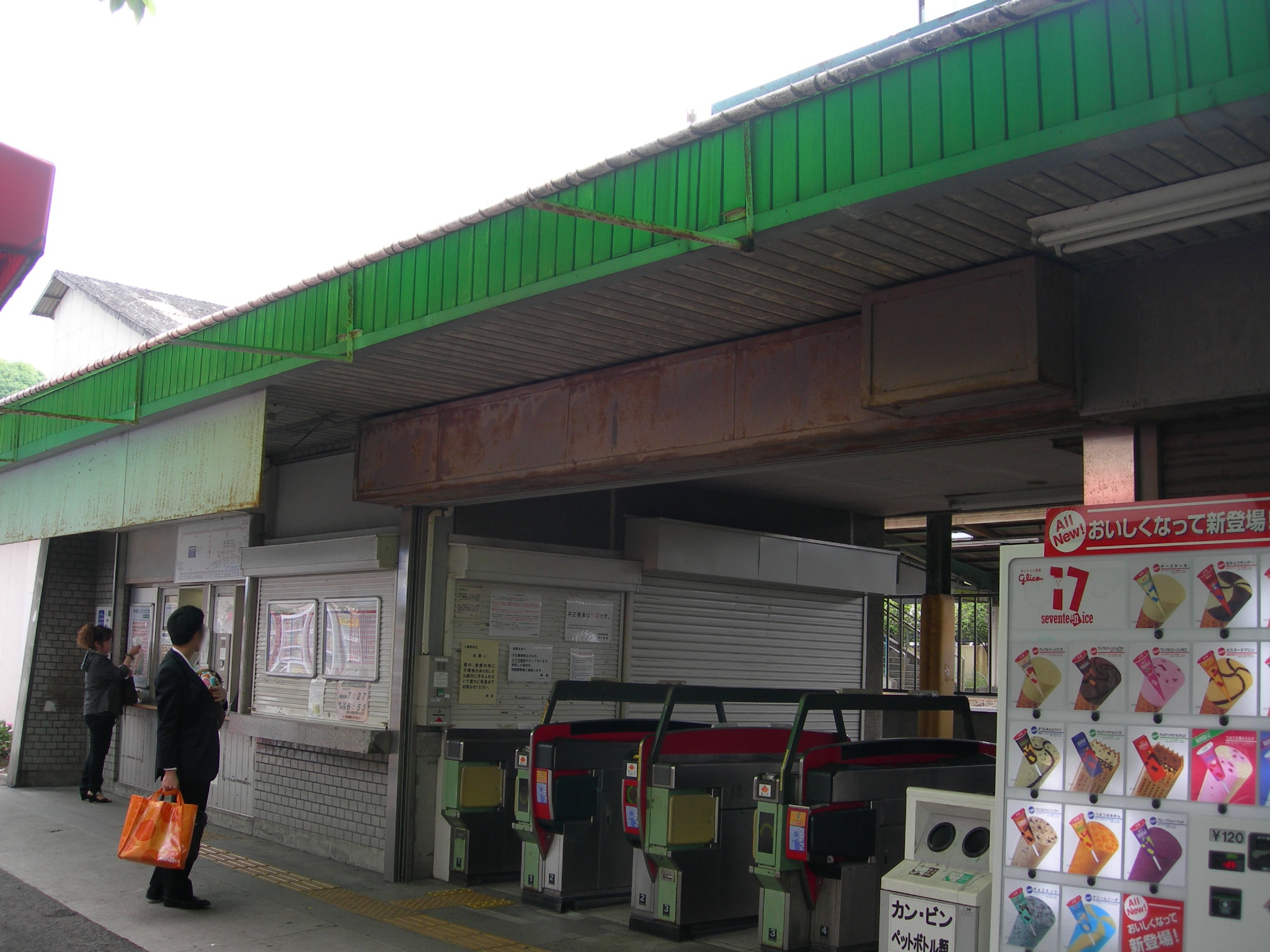 Shintetsu Nagata Station, taken in 2010.